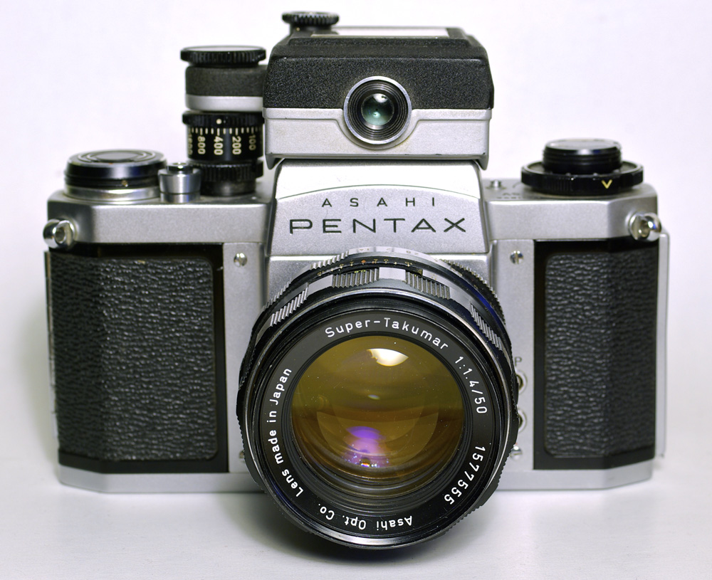 Pentax SV (2nd variant) single lens reflex (SLR) 35mm camera. Manufactured by Asahi Optical Company, Japan from 1964-1968. The original SV model was introduced in 1962. Shown with the Pentax clip-on meter (later version.)